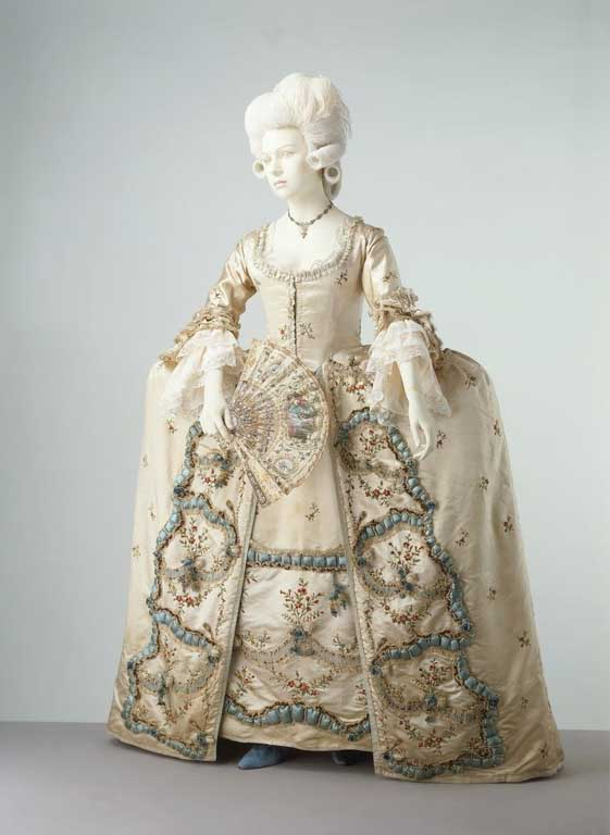 Sack-back gown and petticoat, 1775-1780 V&A Museum no. T.180&A-1965 Description This garment is a combination of old-fashioned and up-to-date dress design. The very square hoops and sleeve ruffles at the elbow look back to the 1750s, while the centre front closure of the bodice is a feature of contemporary fashion. The gown and petticoat are trimmed with badded bands of blue satin, chenille blonde lace, flowers of gathered ribbon, feathers and raffia tassels. This rich mélange is typically French. the floral imagery and curvilinear arrangement characterize exuberant Rococo-style dress embellishment. However, the subtle colours of the gown and the delicacy of design reflect the growing influence of the Neo-classical style in textile decoration. Place - France